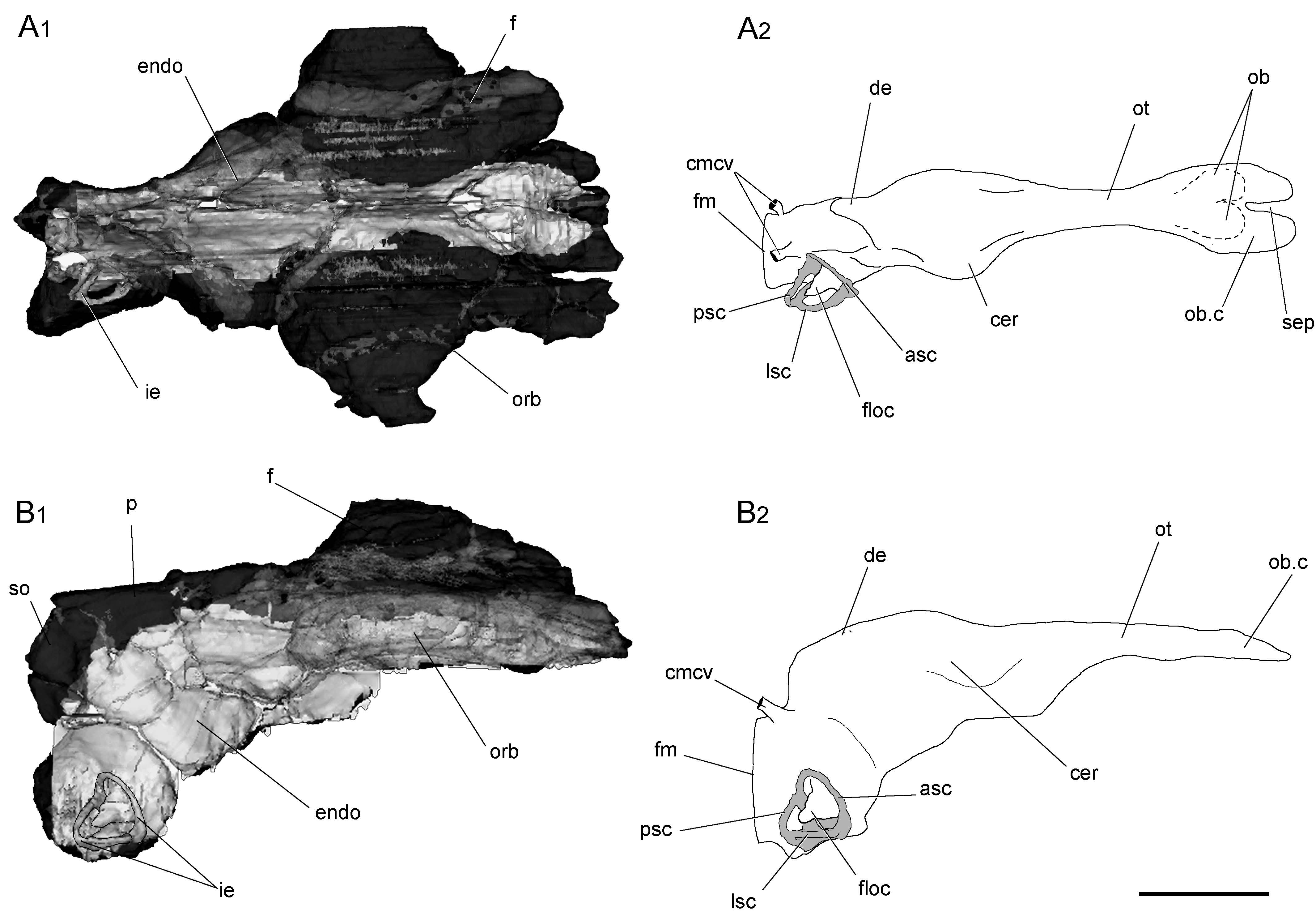 Aucasaurus garridoi Coria, Chiappe and Dingus 2002, from the Upper Cretaceous of North Patagonia (MCF-PVPH 236). Volume rendering of the braincase (semi-transparent)and cranial endocast (A1,B1), and line drawings of brain and inner ear (A2, B2) in dorsal (A)and right lateral (B) views. Abbreviations: asc, anterior semicircular canal; cmcv, caudalmiddle cerebral vein; cer, cerebral hemisphere; de, dorsal expansion; endo, cranial endocast;f, frontal; floc, floccular process; fm, foramenmagnum; ie, inner ear; lsc, lateral semicircularcanal; p, parietal; psc, posterior semicircularcanal; so, supraoccipital; ob, olfactory bulbimpression; ob.c, olfactory bulb cavity cast; orb, orbital rim of frontal; ot, olfactory tract; sep,space occupied by the median inter-nasal septum formed by ethmoidal elements. Scale bar 5cm.